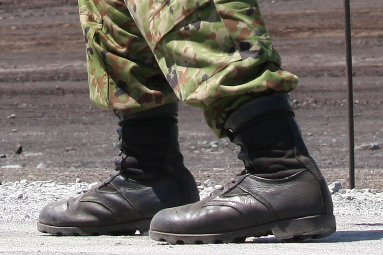 Combat boots type 2 (Japan Ground Self-Defense Force)